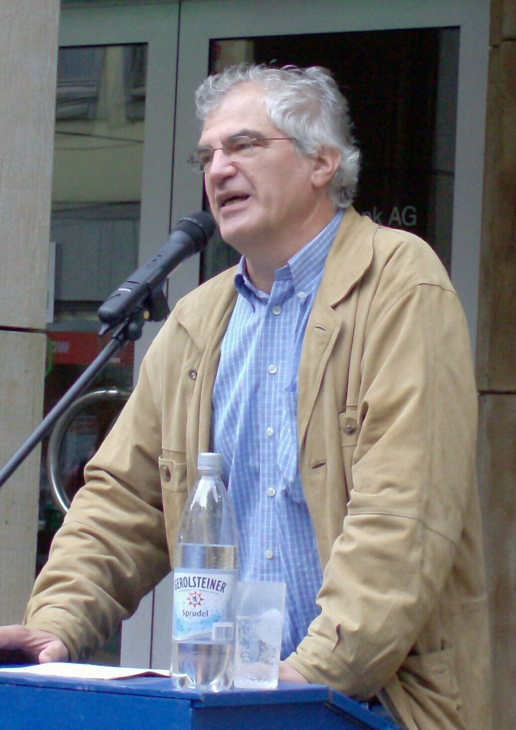 Hanns W. Maull (* 1947), Professor of Political Science